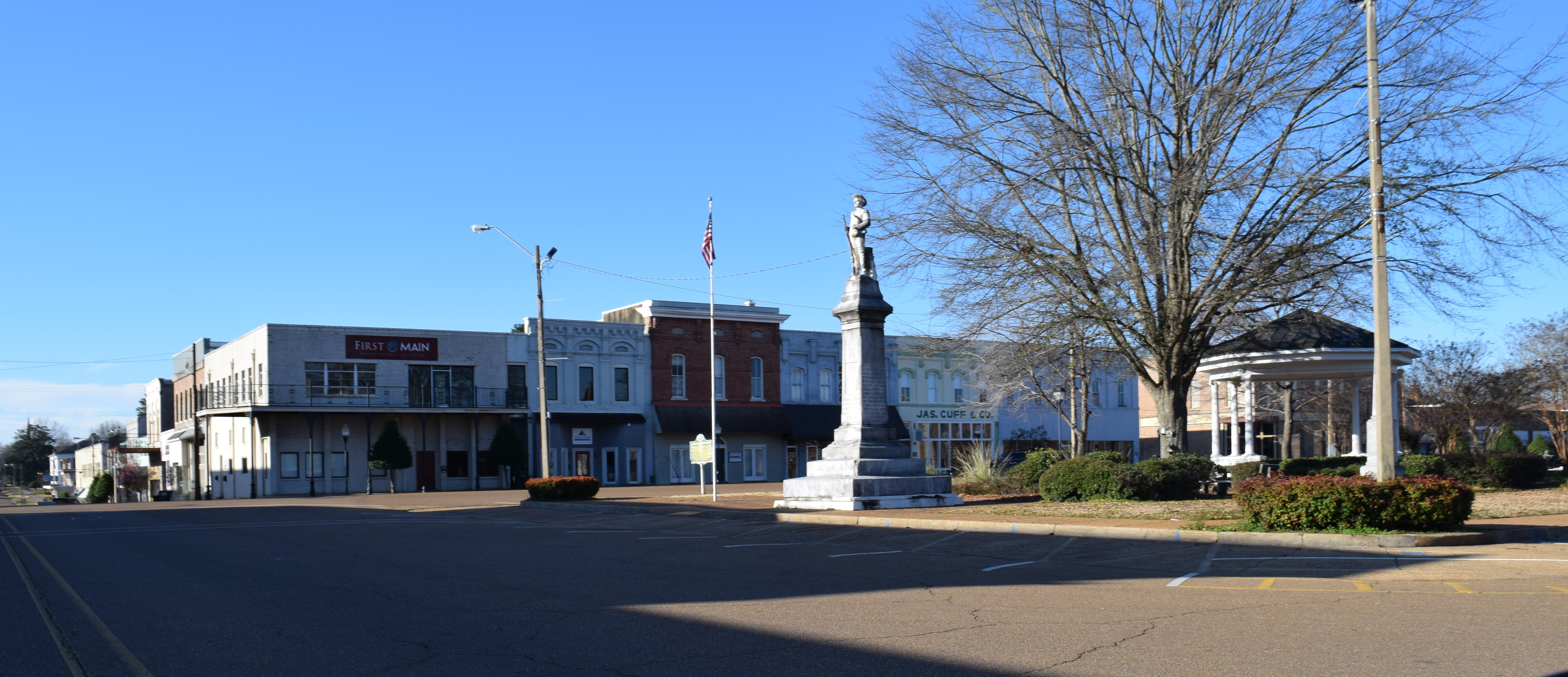 The south side of the square in downtown Grenada, Mississippi with the Confederate monument